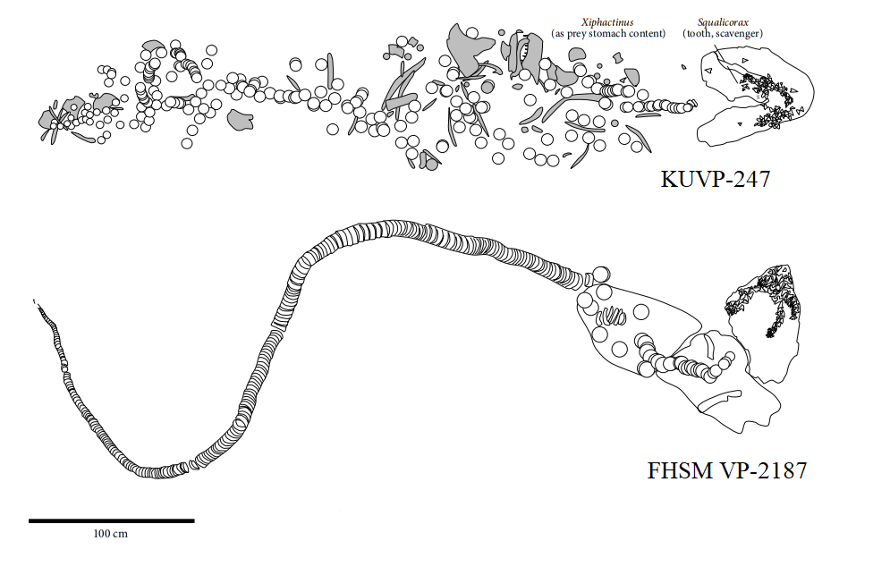 Interpretative drawings of Cretoxyrhina mantelli skeletons KUVP-247 and FHSM VP-2187. Modified from Diedrich (2014)